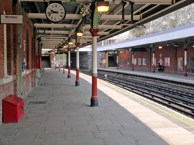 Grange Hill Underground Station